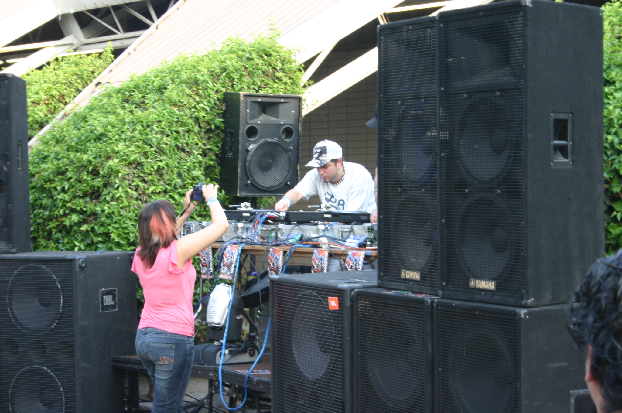 IT Productions LA